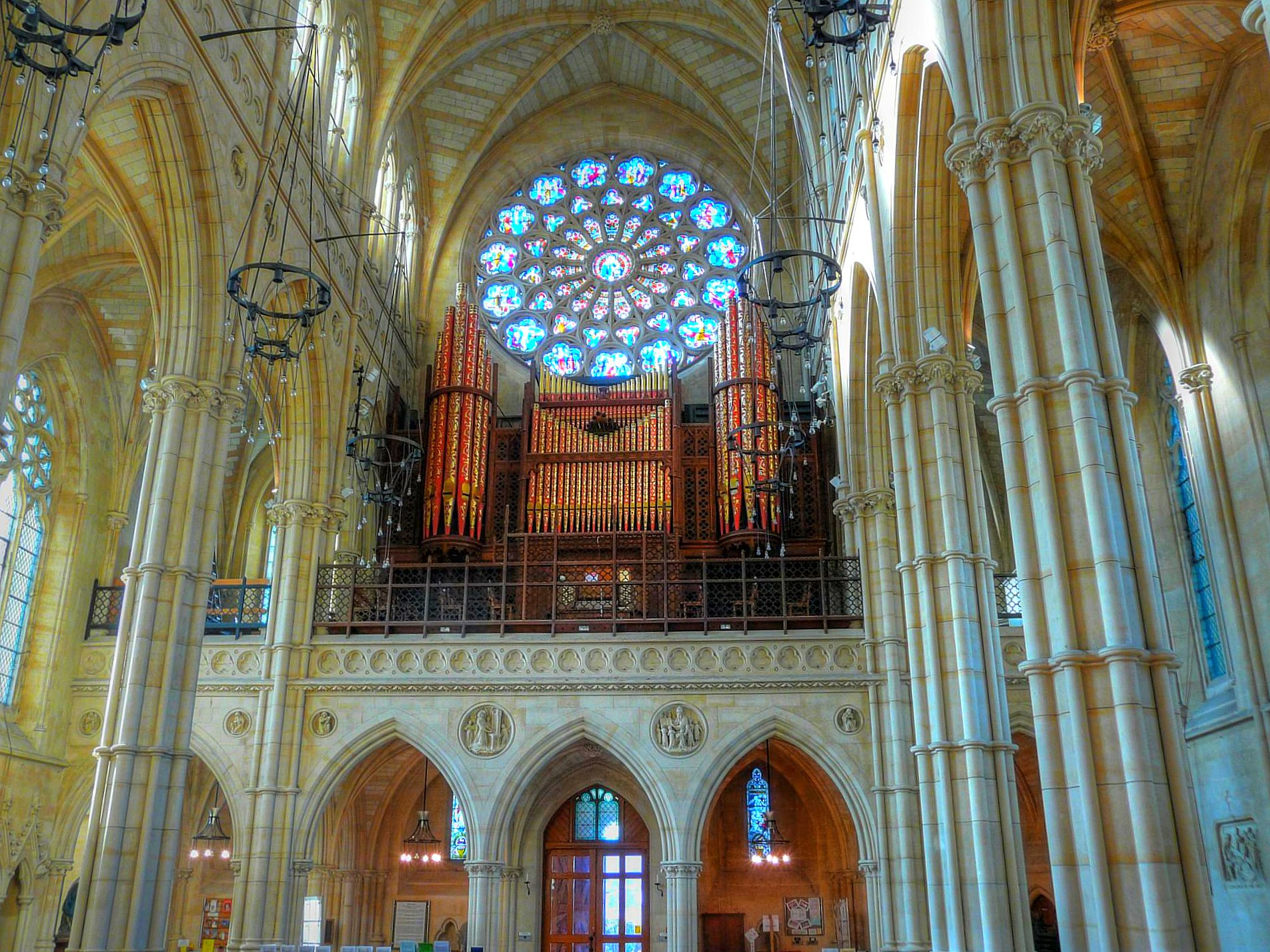 Organ and west window, Arundel Cathedral, West Sussex.